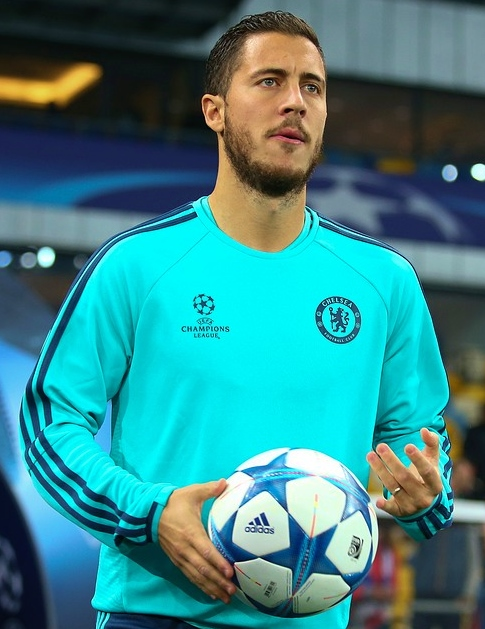 Eden Hazard